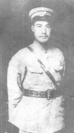 Republic of China Chinese muslim General Ma Bufang. Was a member of the Kuomintang.